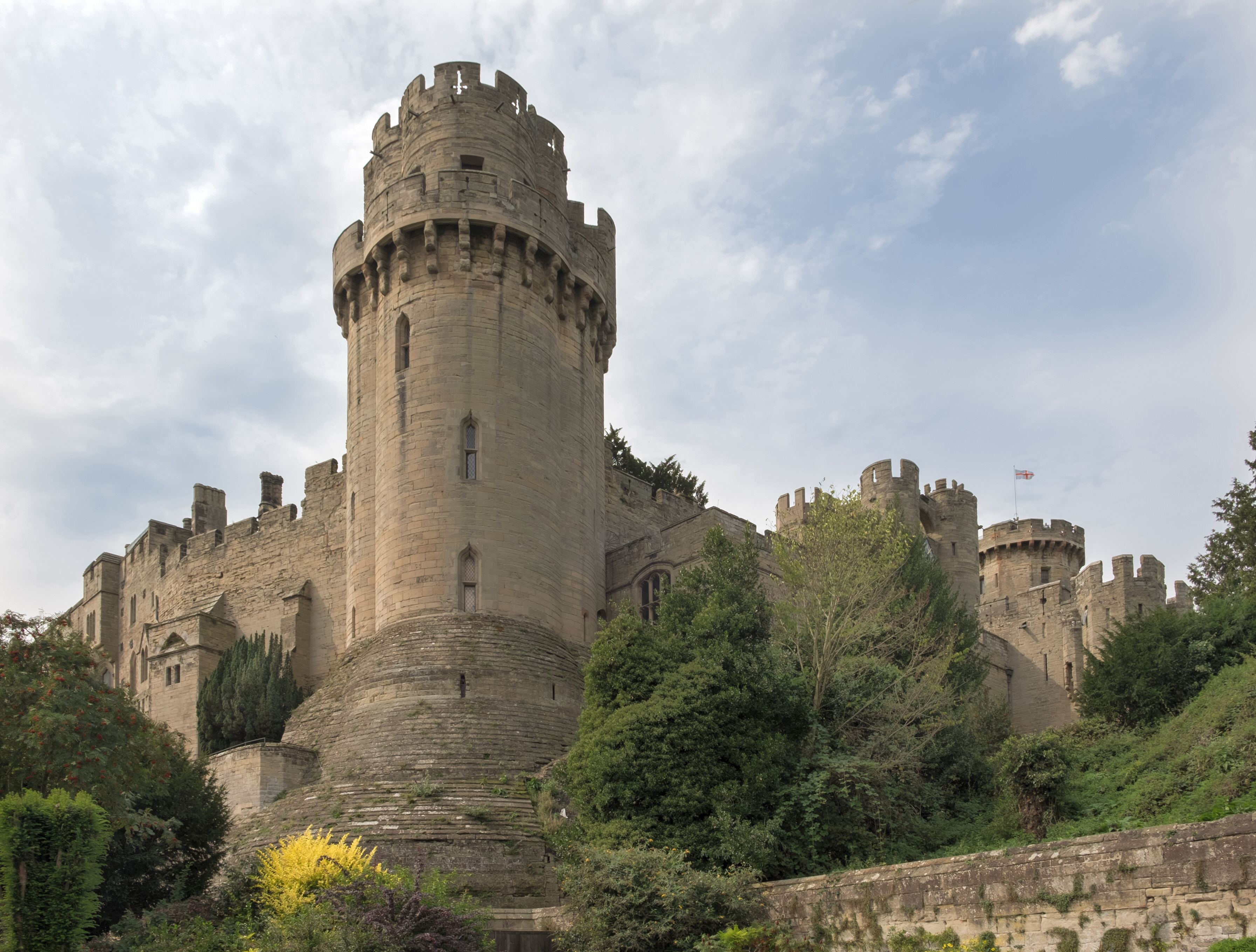 Caesar's Tower, Warwick Castle in 2016